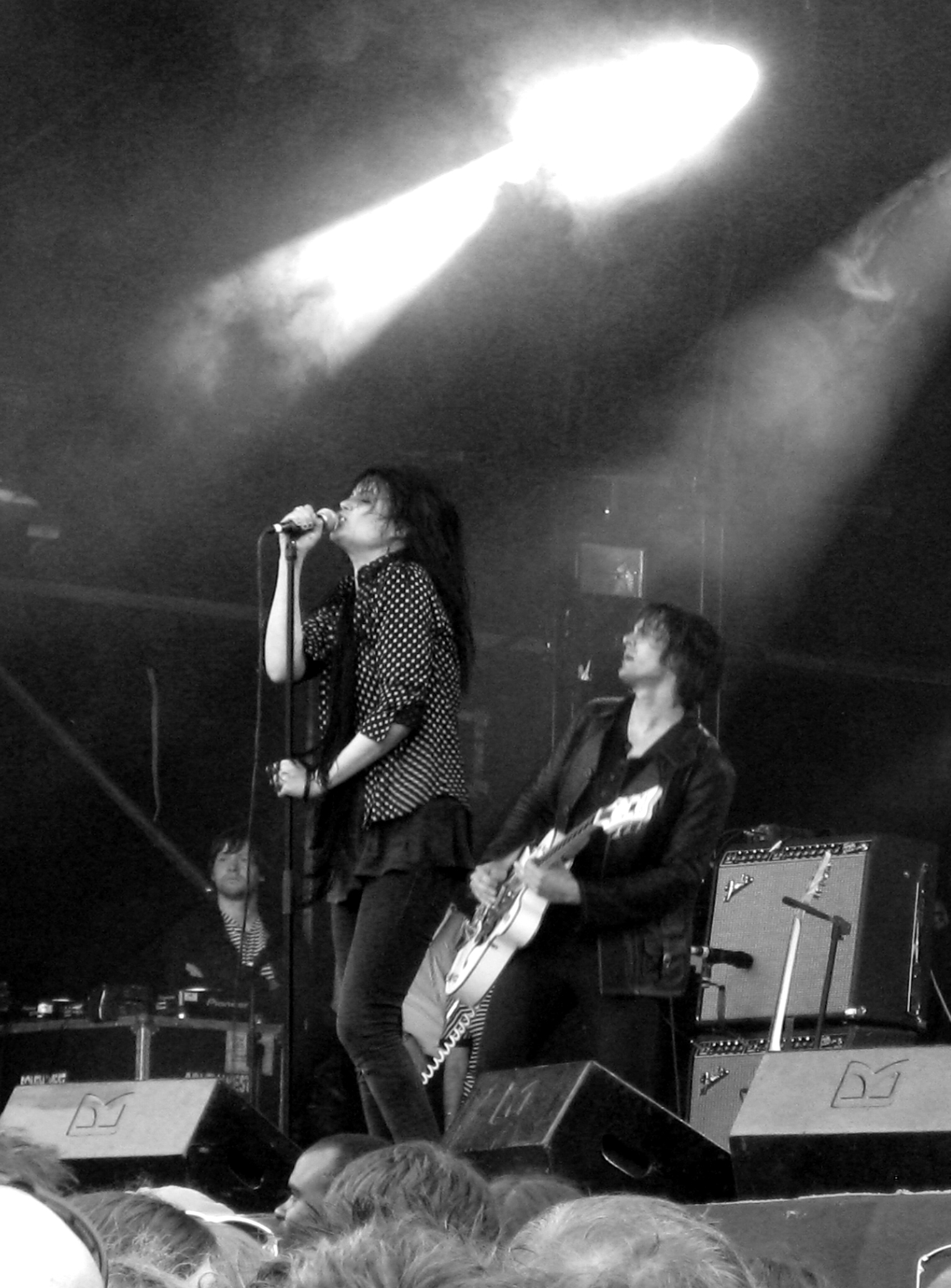 Alison Mosshart and Dean Fertita of The Dead Weather performing live at the Glastonbury Festival, 26th June 2009.